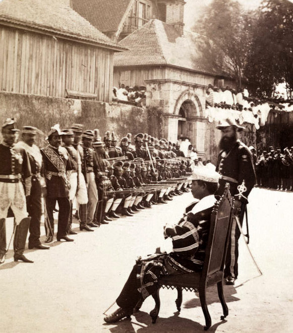 Prime Minister Rainilaiarivony of Madagascar inspecting troops